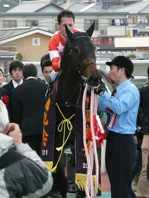 Red-Davis20111203